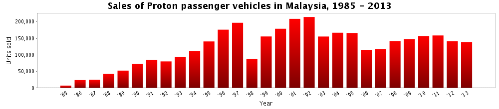 Sales of Proton passenger vehicles in Malaysia, 1985 - 2013.As published by the Malaysian Automotive Association (MAA).Sources1985 - 1994, 1995 - 2001, 2002 - 2012, 2013Note : Detailed data is unavailable for years 1985 to 1994, rounded values are used instead.Raw data7500,24100,24900,42500,52700,72500,84800,80400,94100,111300,140647,176100,196806,87489,155720178960,208746,214373,155420,166833,166118,115551,117624,141782,147744,156960,158601,141120,138753